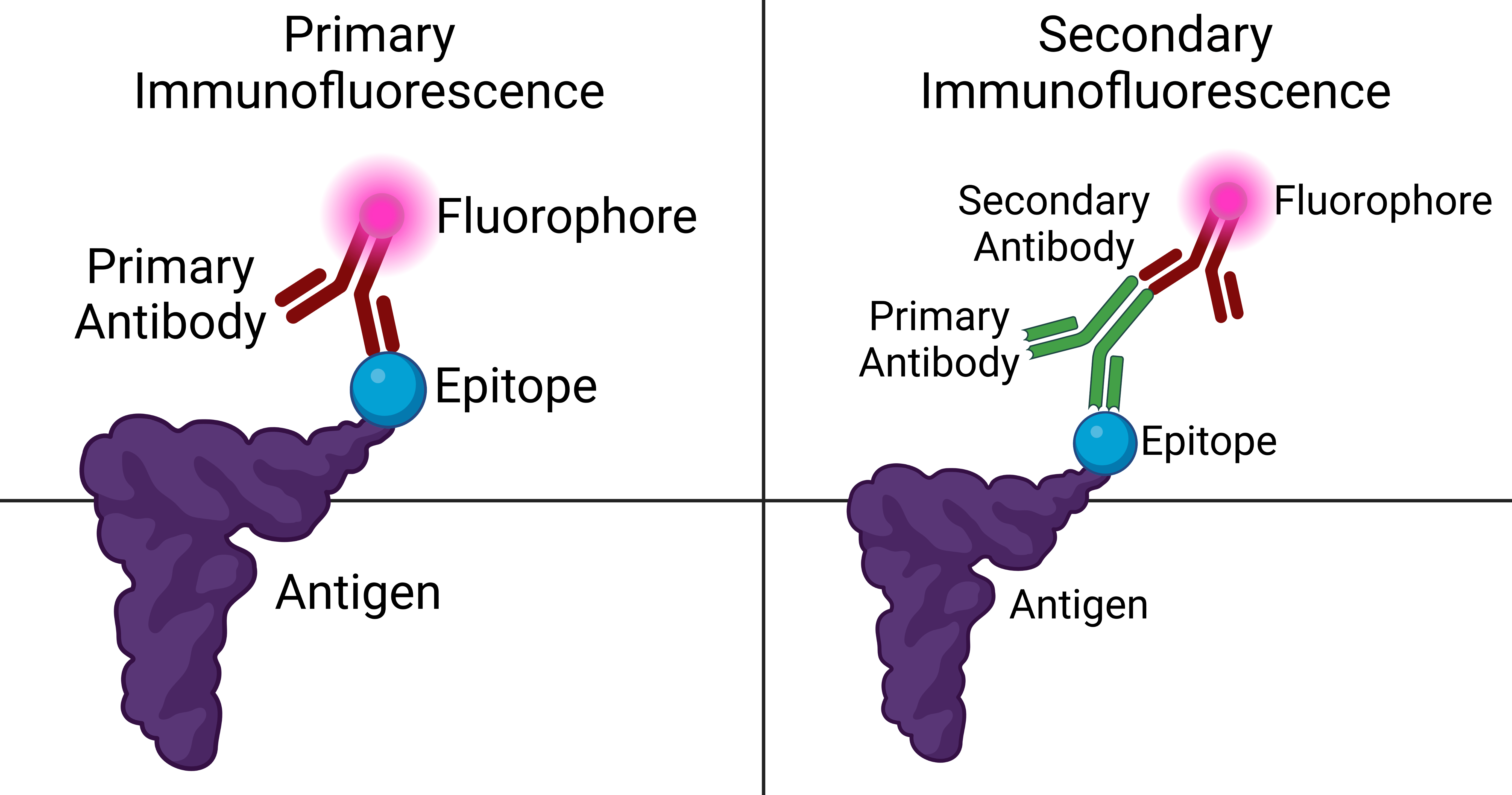 Mechanism of primary and secondary immunofluorescence